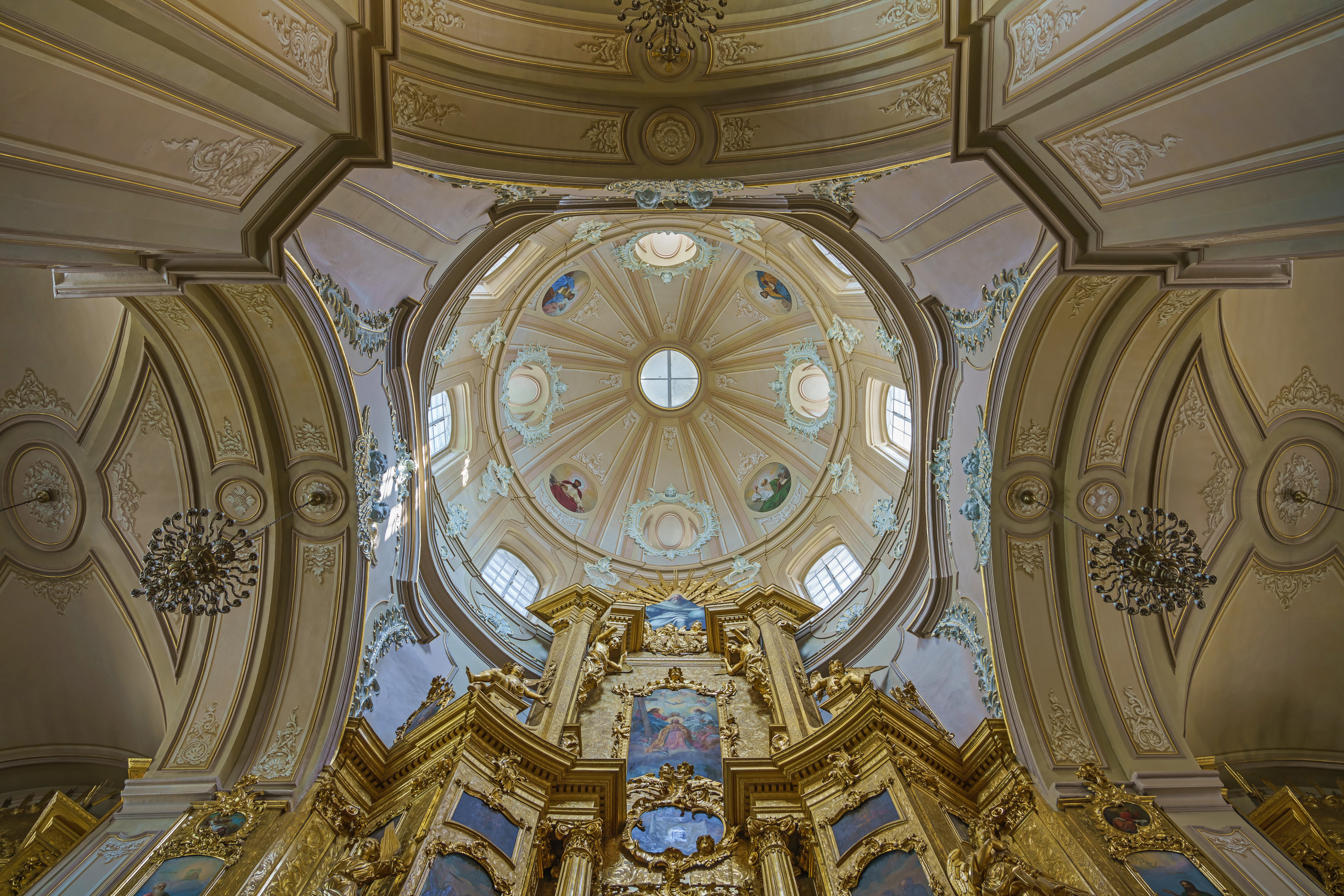 Interior of Church of St. Clement, the Pope of Rome, in Moscow, Russia.